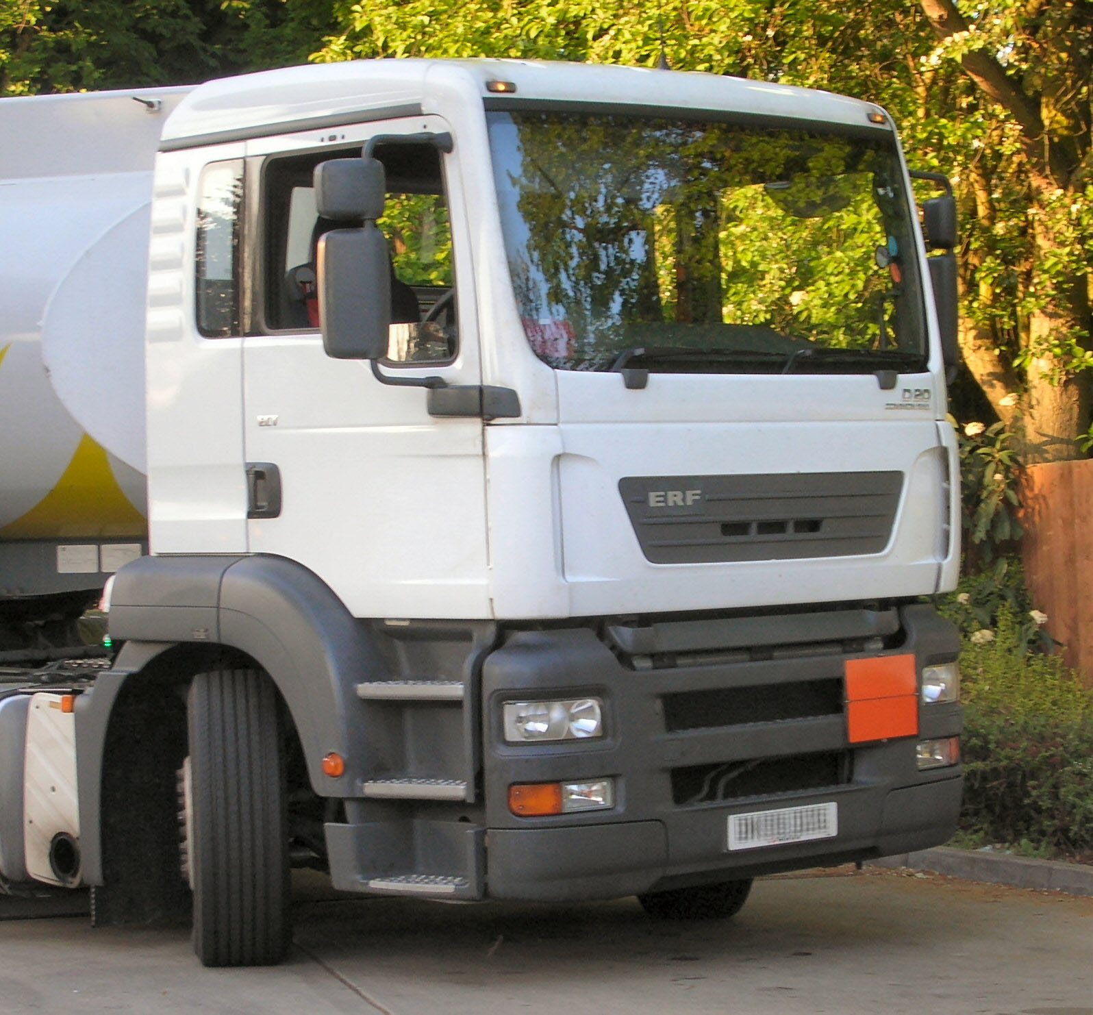 A 2005 ERF ECT tractor unit